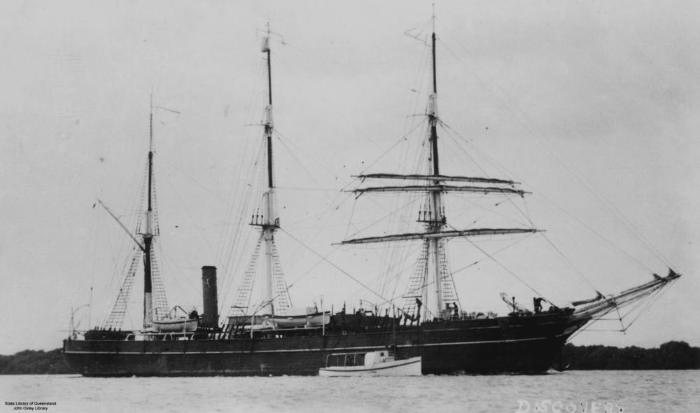 RRS Discovery